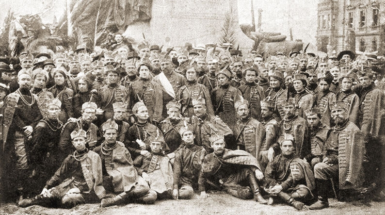 "Sokol" ("Falcons") with Oleksandr Hyzhytskyi. Palacký University. 1912